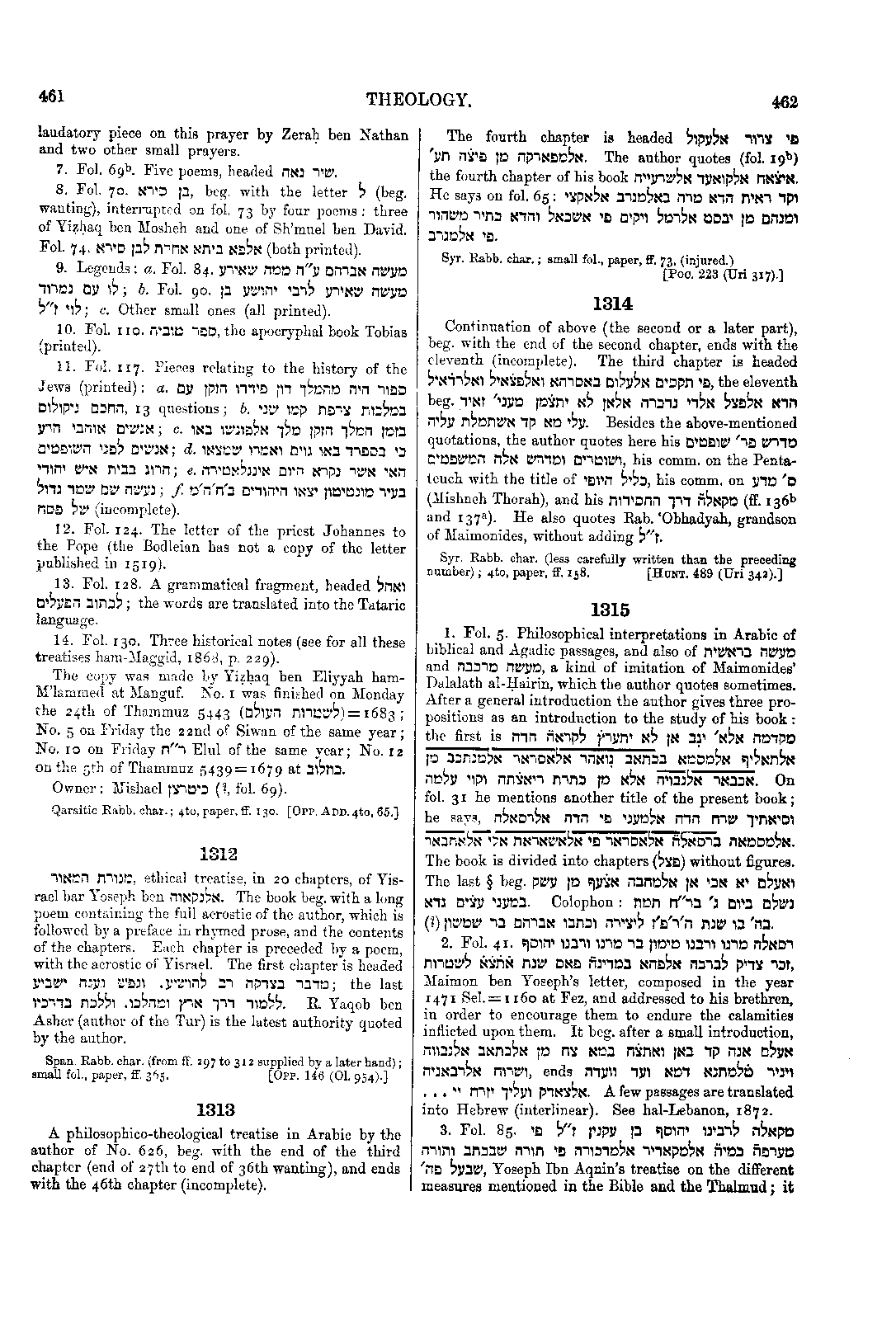 Sample page from the Bodleian Catalogue of Hebrew Manuscripts (1886). Volume 1 contains approximately 900 such pages.